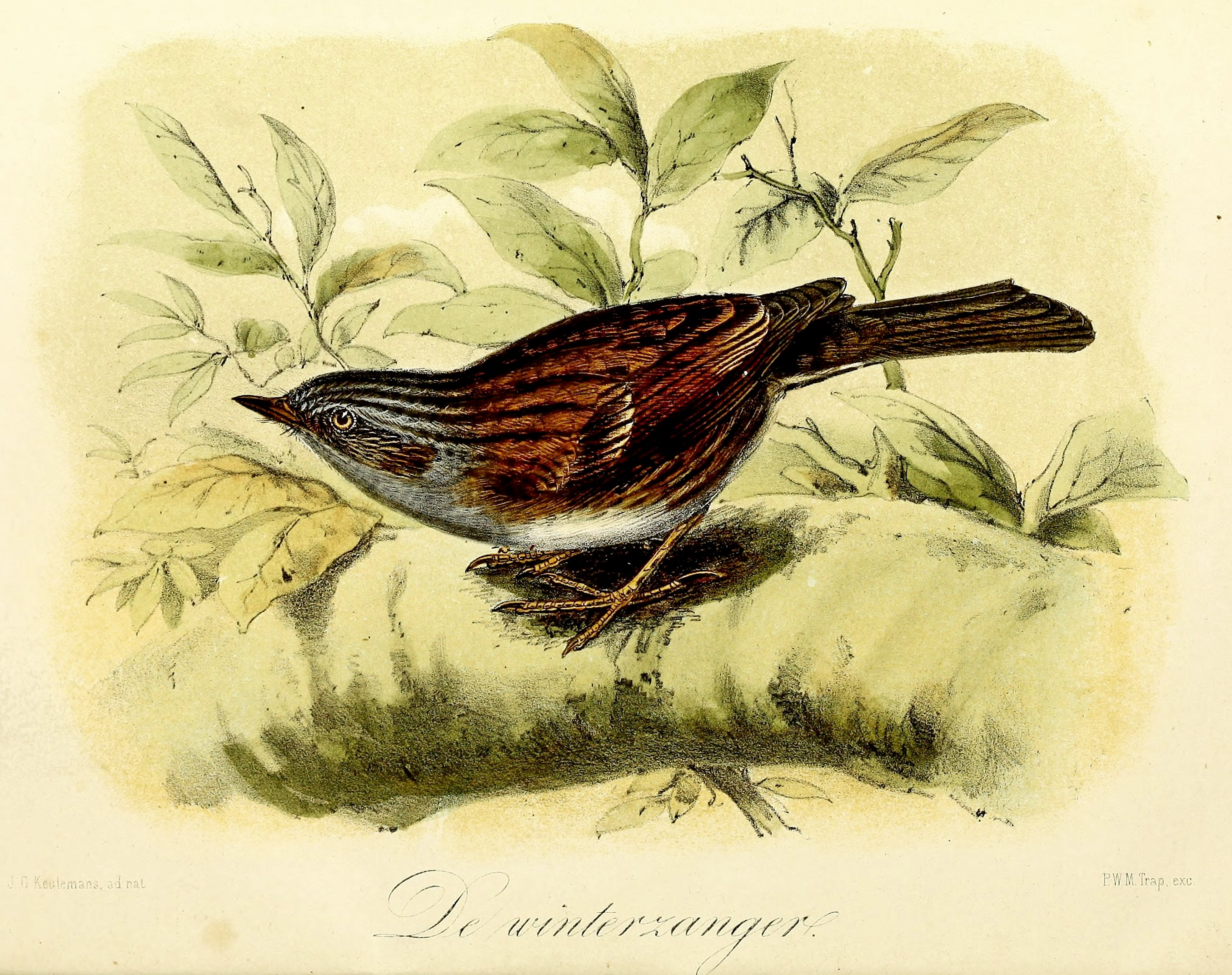 « Accentor modularis » = Prunella modularis (Dunnock)